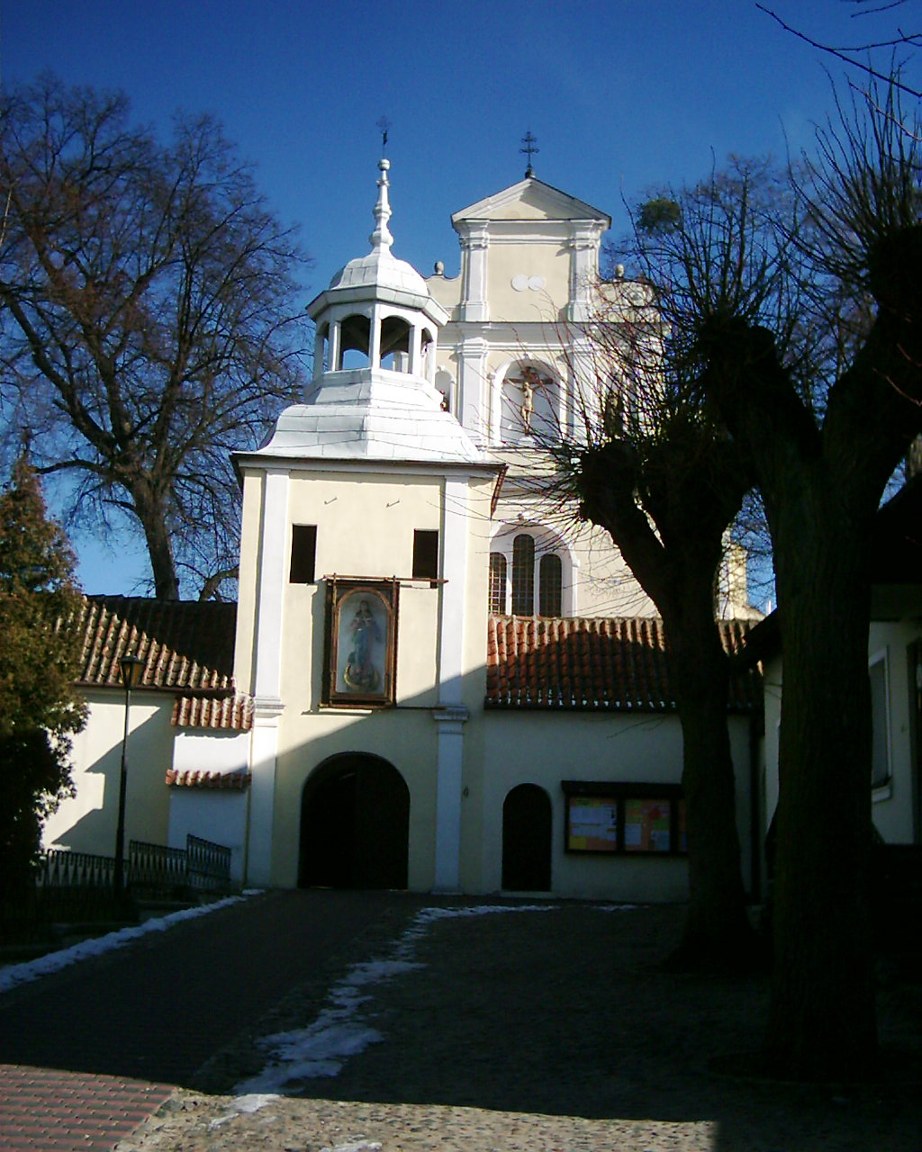 Świecie, Poland - postfrnaciscan monastery